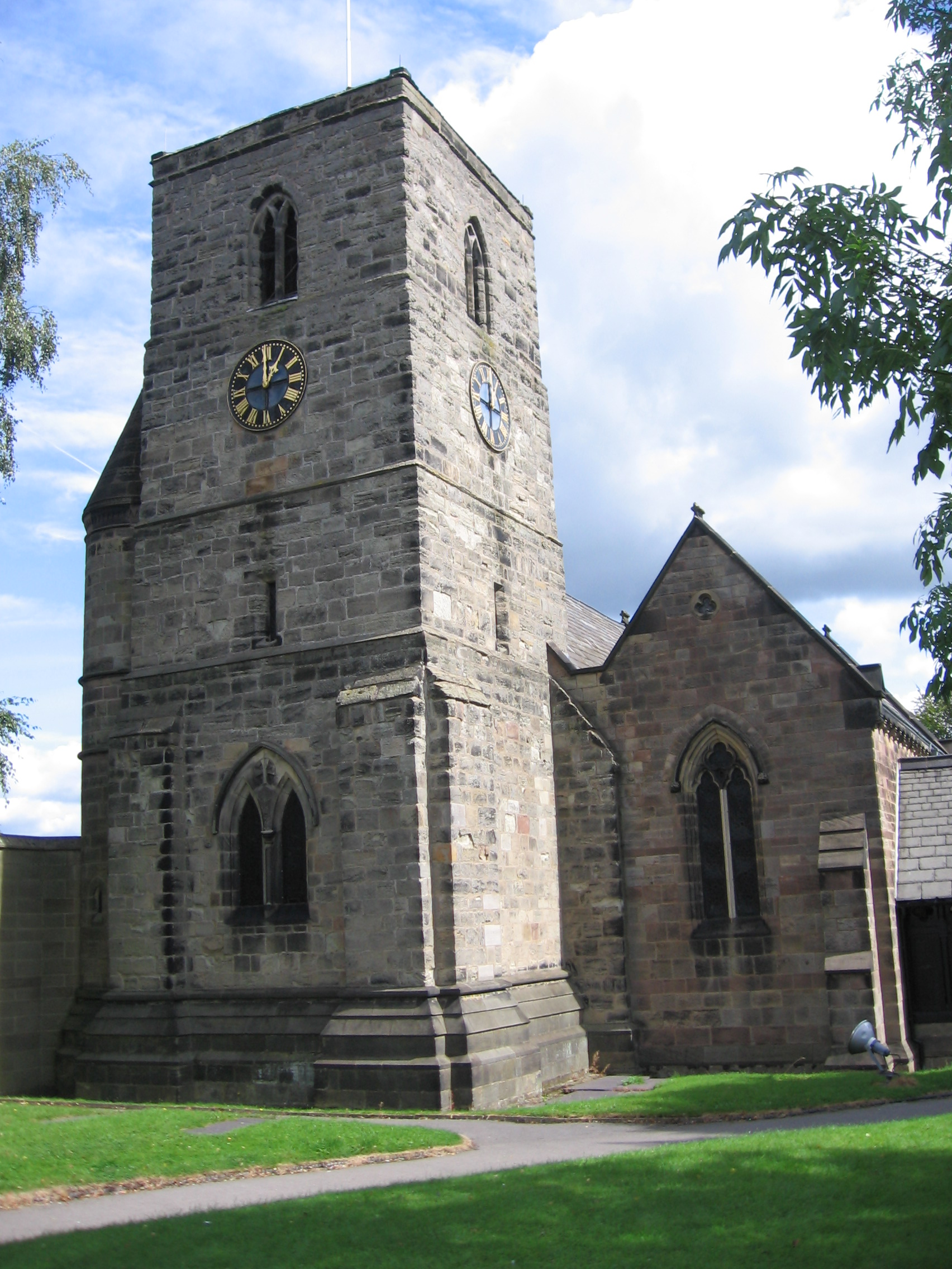 St Edmund's parish church Allestree, Derby, England, seen from the west